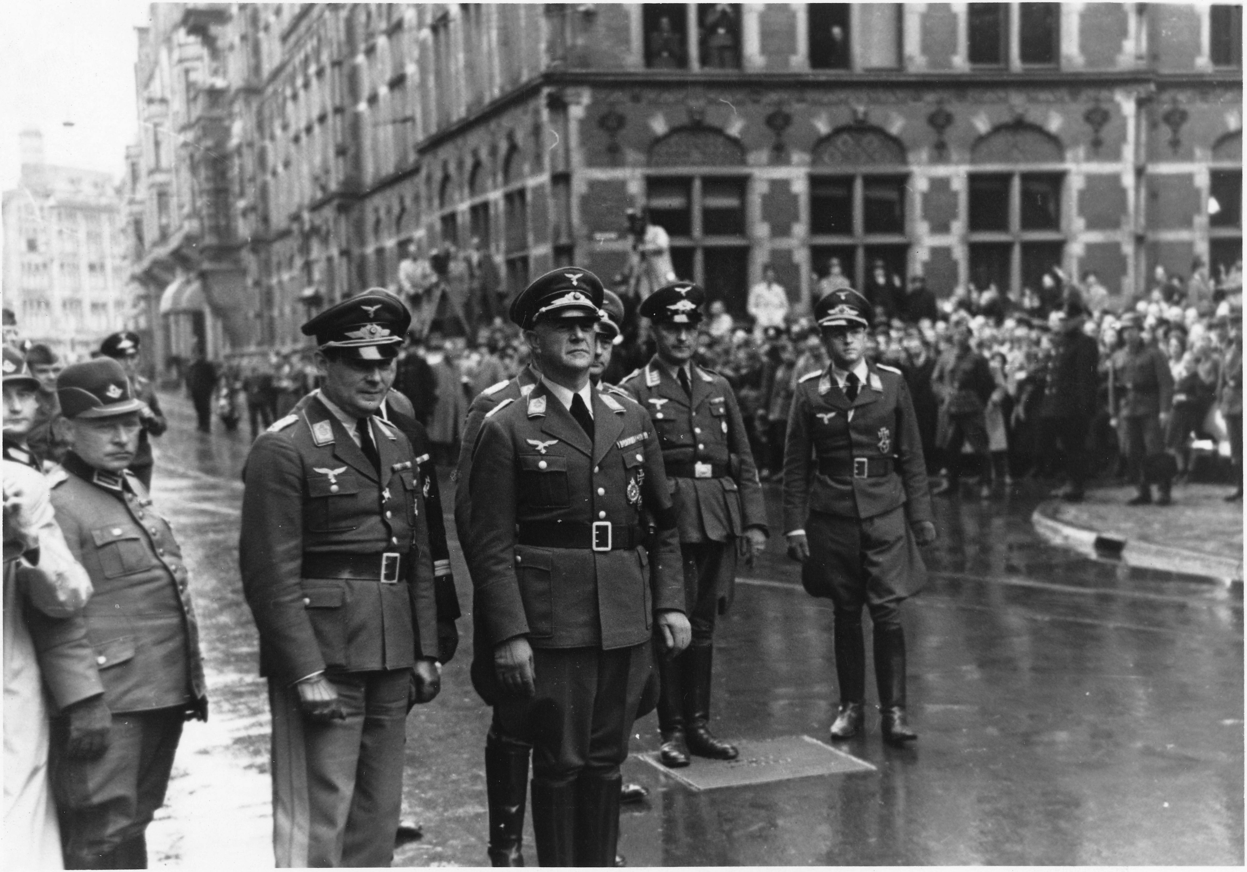 Air General Friedrich Christiansen (third from the left) arrives in The Hague at the Lange Poten street near the Plein square accompanied by a number of high ranking German officers. On the background spectators and photographers. Adolf Hitler appointed General Christiansen as Supreme Commander of the Nazi-German Armed Forces in the Netherlands. He remained at this post for the entire duration of the Second World War.